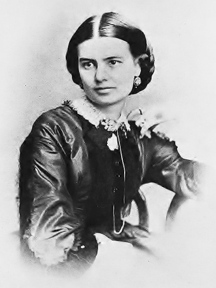 Ellen Lewis Herndon Arthur, half-length portrait, facing right.